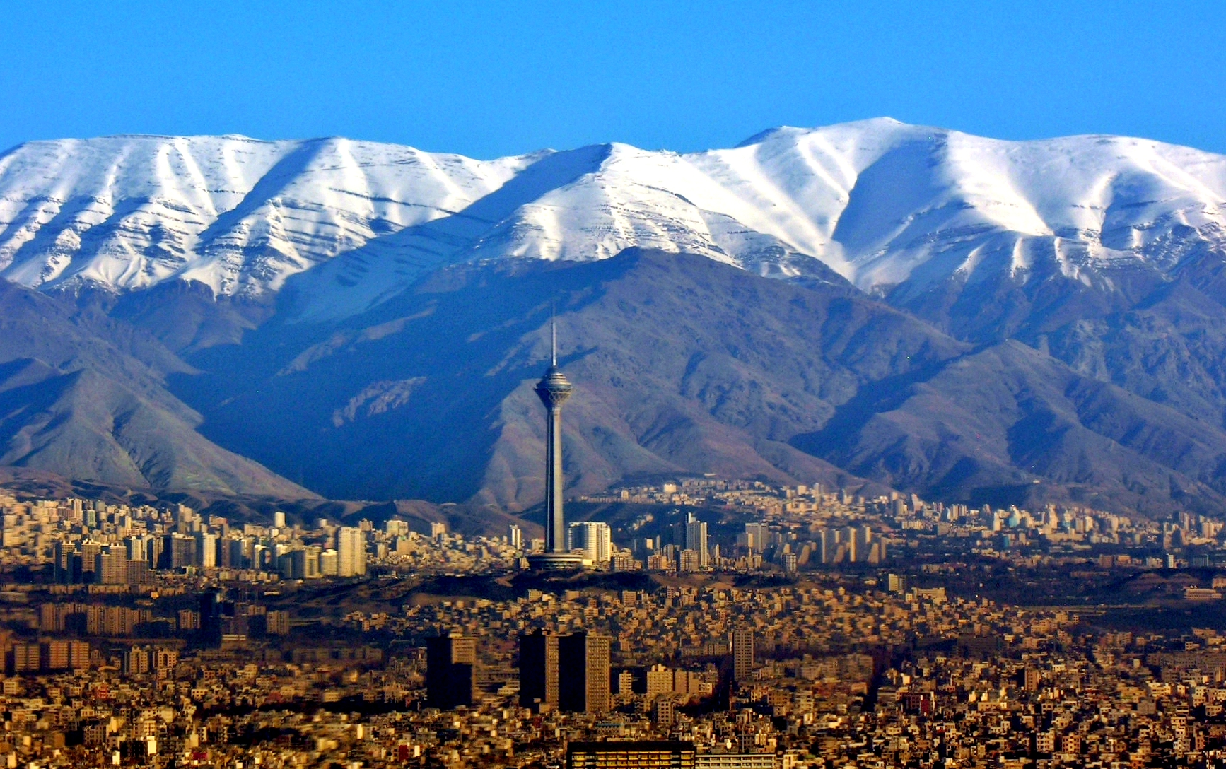 Aerial View of Tehran. Alborz Mountain Range and Tochal Mountain in background.